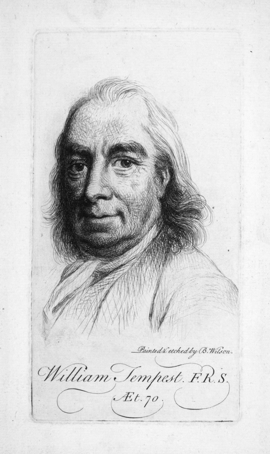 William Tempest, F.R.S. Aged 70 etching 18.7 x 10 cm (plate) Frontispiece to William Tempest, Chronology (1752) after a painting by Benjamin Wilson